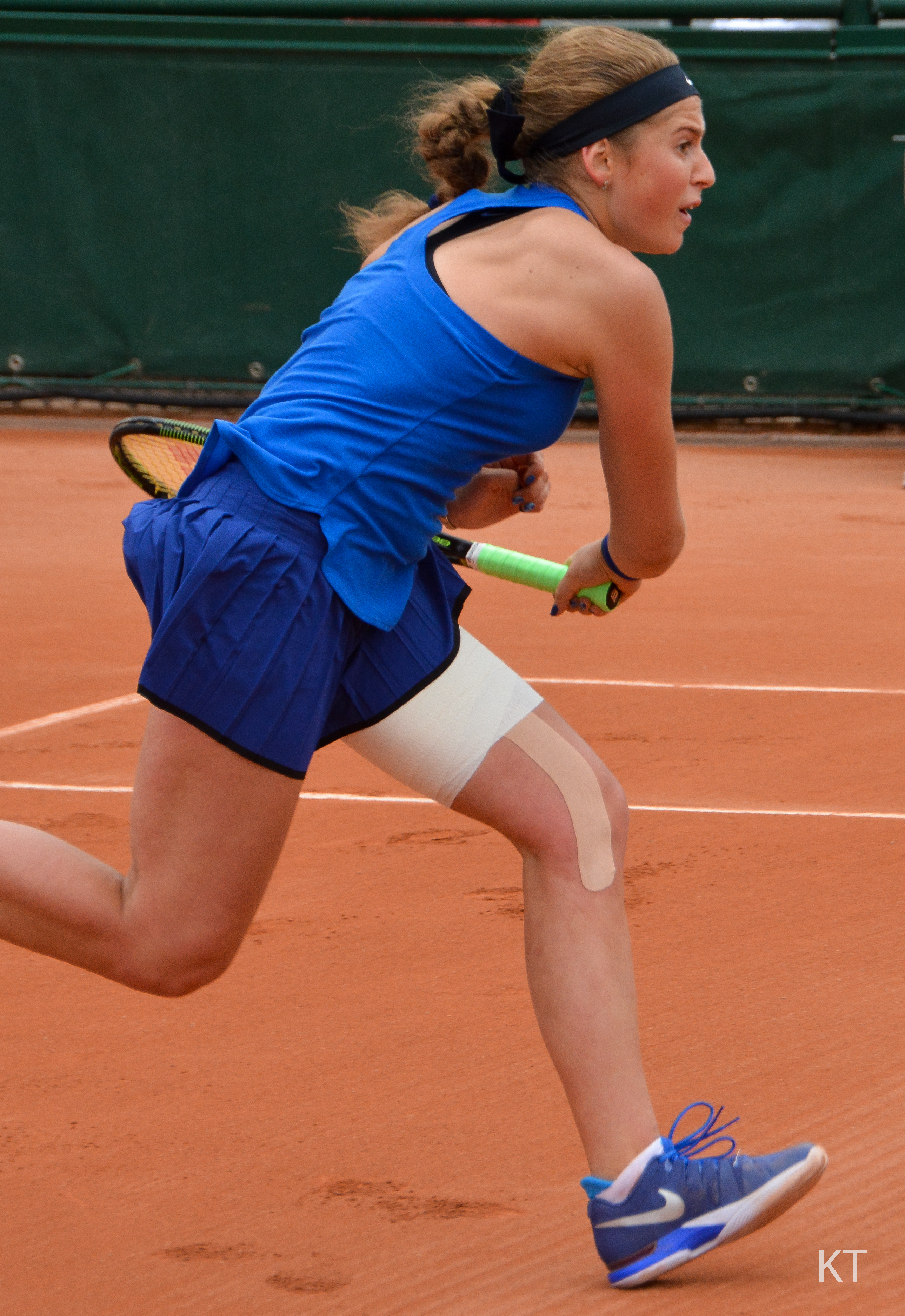 Day 2 of Roland Garros 2016.